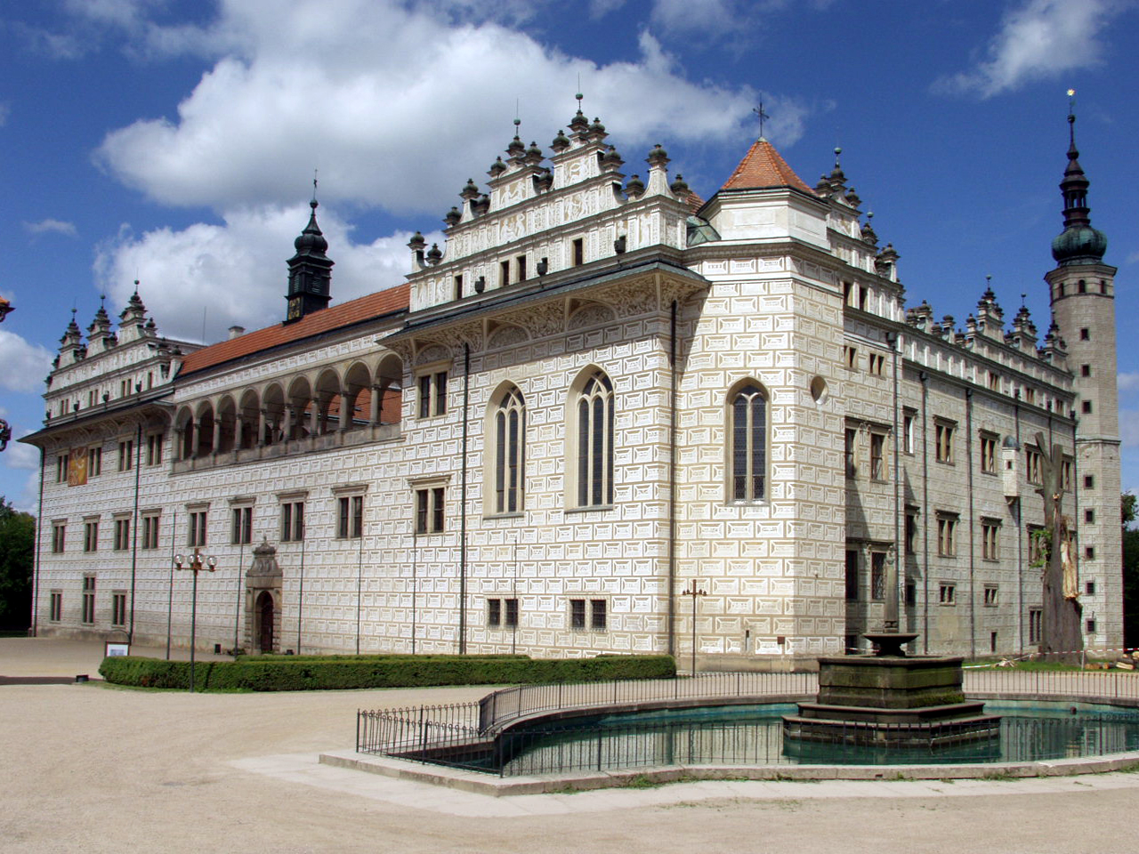 Chateu Litomyšl